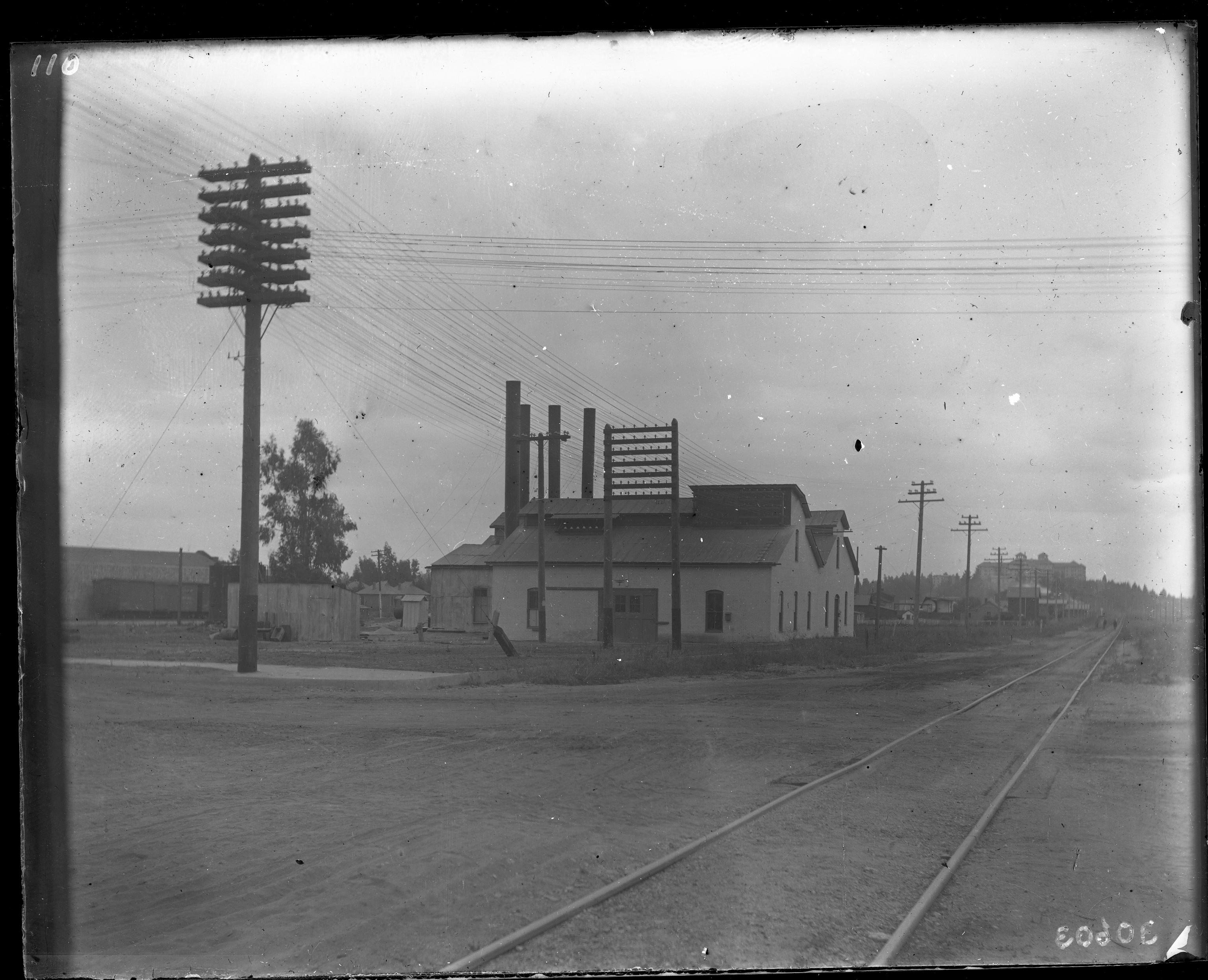 Title: 110. Station, Pasadena Light & Power Co., Pasadena, Cal., 1903 by John Fairbairn Anderson of Peterborough, Ontario, Community Archives of Belleville and Hastings County